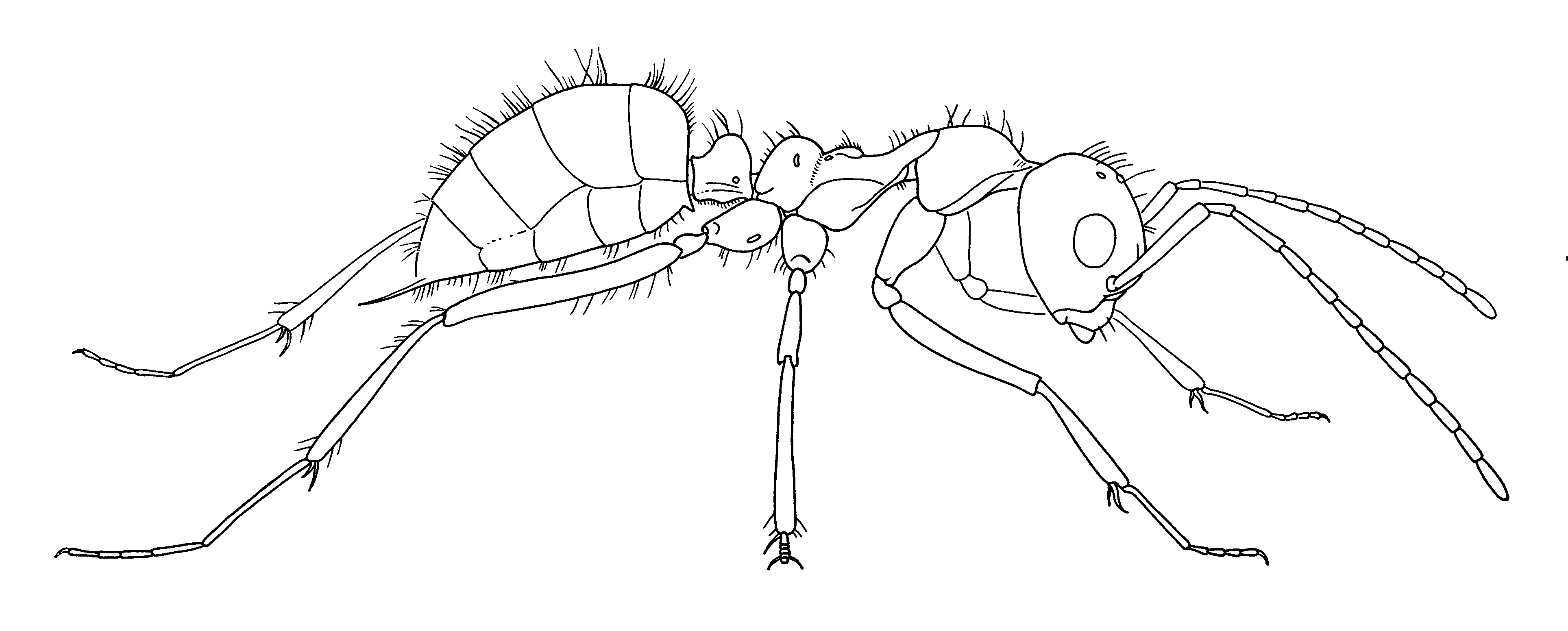 Drawing of Sphecomyrma freyi, worker no. 1. Only structures that could be clearly seen were drawn. Thus the figure is a direct rendition and not a reconstruction, although the appendages have been turned to more life-like positions.